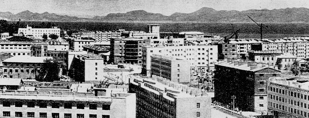 Wonsan circa 1960